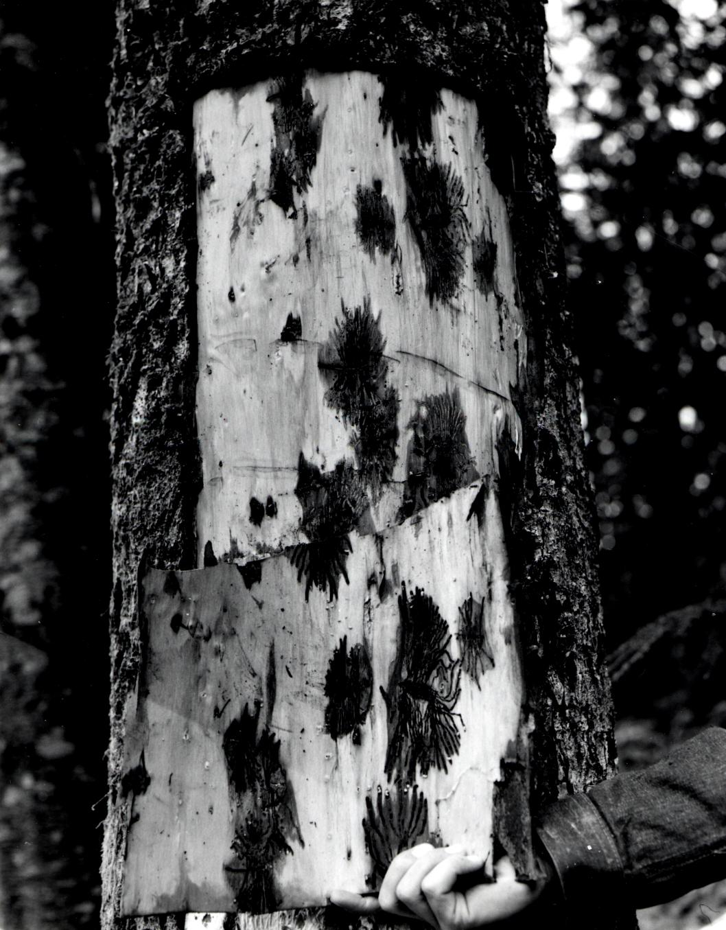 Pseudohylesinus grandis egg galleries on Pacific silver fir. Upper part - galleries on wood; lower part - galleries on bark, removed from upper part. Baker River District, Mt. Baker National Forest. Washington. Photo by: Ken H. Wright and G.M. Thomas Date: September 29, 1955 Credit: USDA Forest Service, Pacific Northwest Region, State and Private Forestry, Forest Health Protection. Source: Portland Station Collection; La Grande, Oregon. Image: PS-1352 To learn more about this photo collection see: Wickman, B.E., Torgersen, T.R. and Furniss, M.M. 2002. Photographic images and history of forest insect investigations on the Pacific Slope, 1903-1953. Part 2. Oregon and Washington. American Entomologist, 48(3), p. 178-185. For additional historic forest entomology photos, stories, and resources see the Western Forest Insect Work Conference site: Image provided by USDA Forest Service, Pacific Northwest Region, State and Private Forestry, Forest Health Protection: This image or file is a work of a United States Department of Agriculture employee, taken or made as part of that person's official duties. As a work of the U.S. federal government, the image is in the public domain.